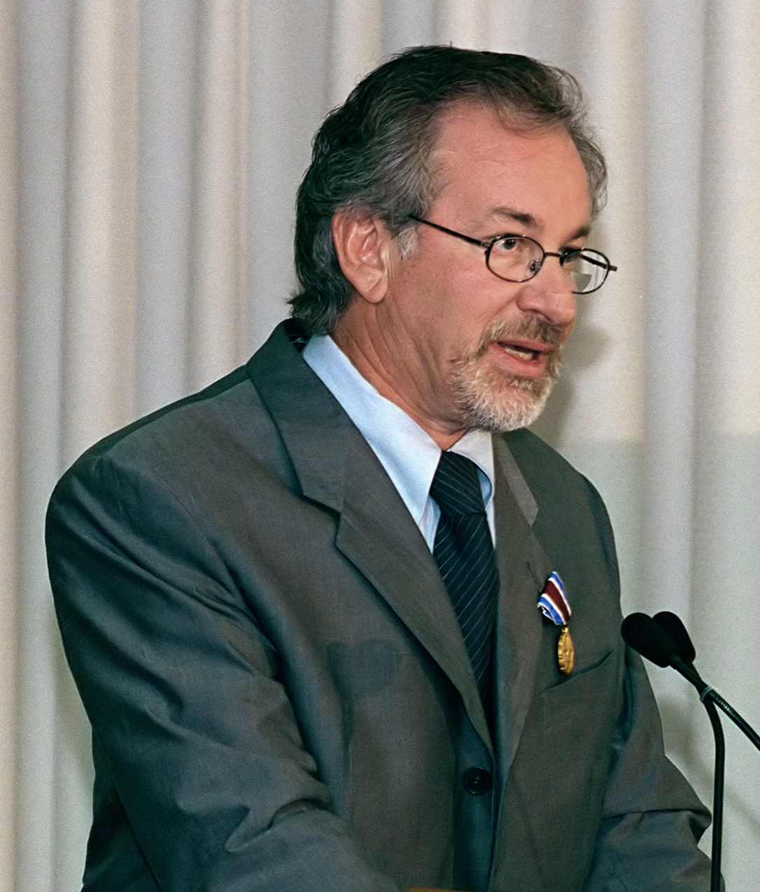 Director Stephen Spielberg speaking at the Pentagon on August 11, 1999.